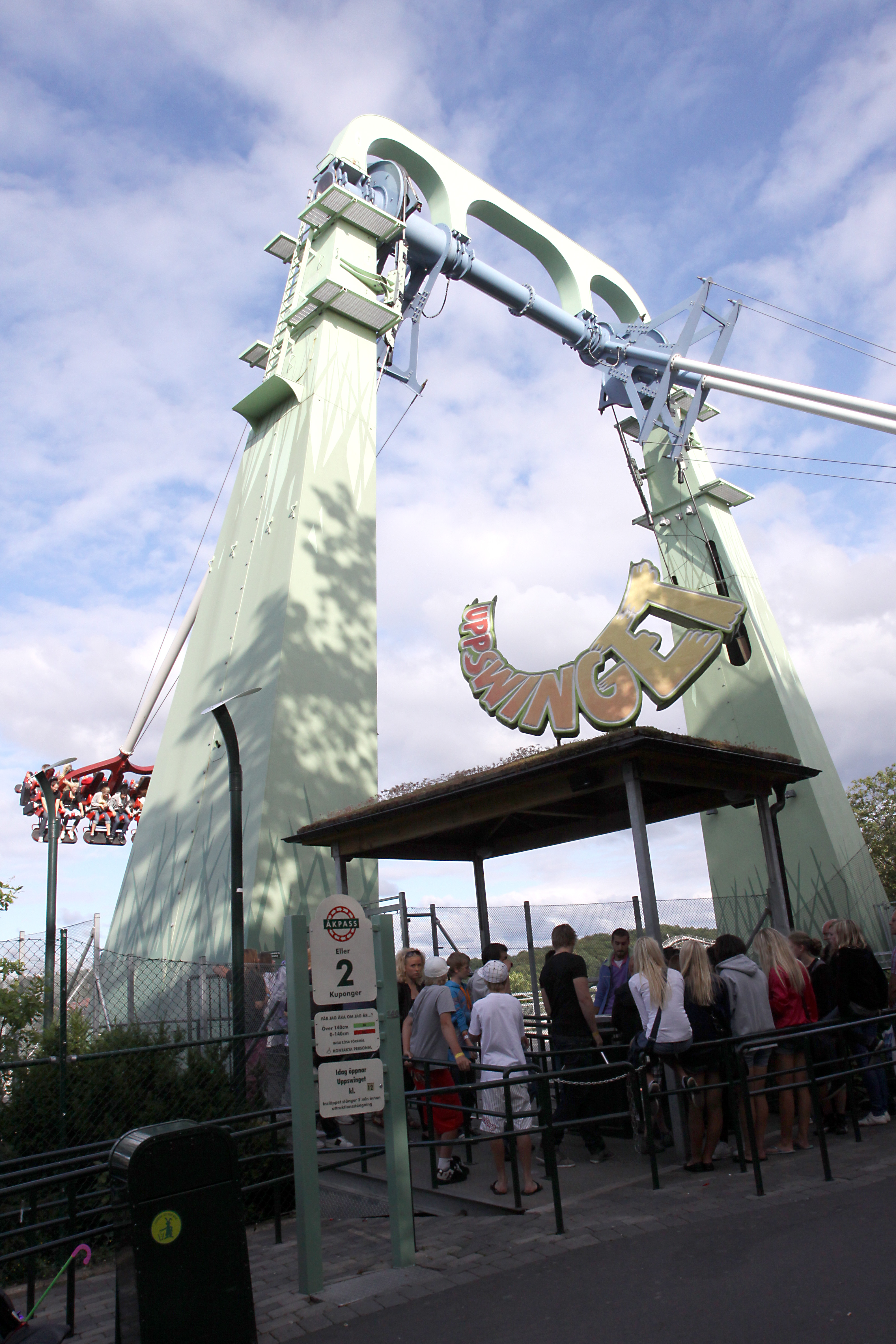 The ride "Uppswinget" at the amusement park Liseberg in Gothenburg, Sweden